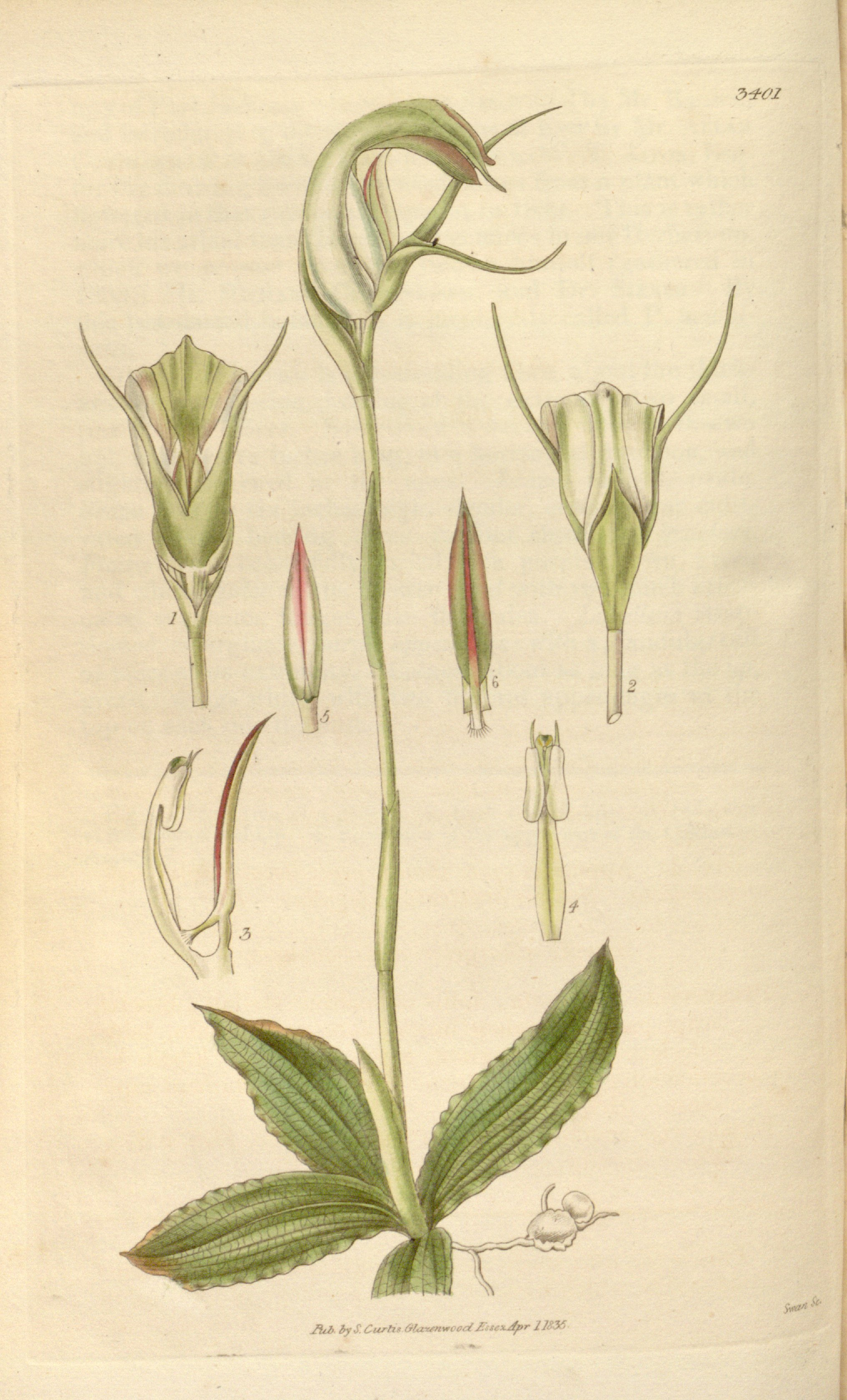 Illustration of Pterostylis acuminata